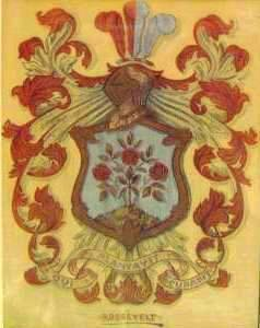 An interpretation of the Roosevelt family coat of arms that is on display at Theodore Roosevelt Birthplace NHS.